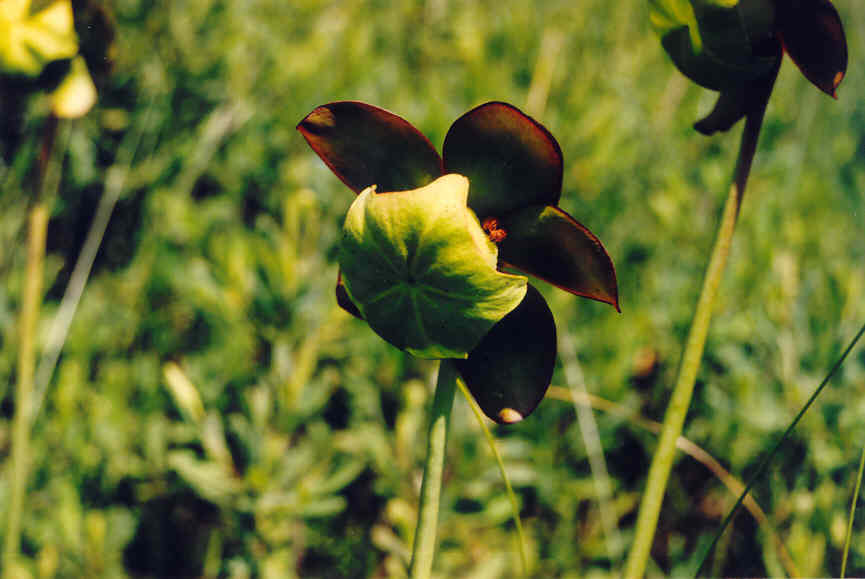 purple pitcher-plant, flower. Black Fen, Pancake Bay Provincial Park. Algoma District, Ontario, Canada. July 2004.